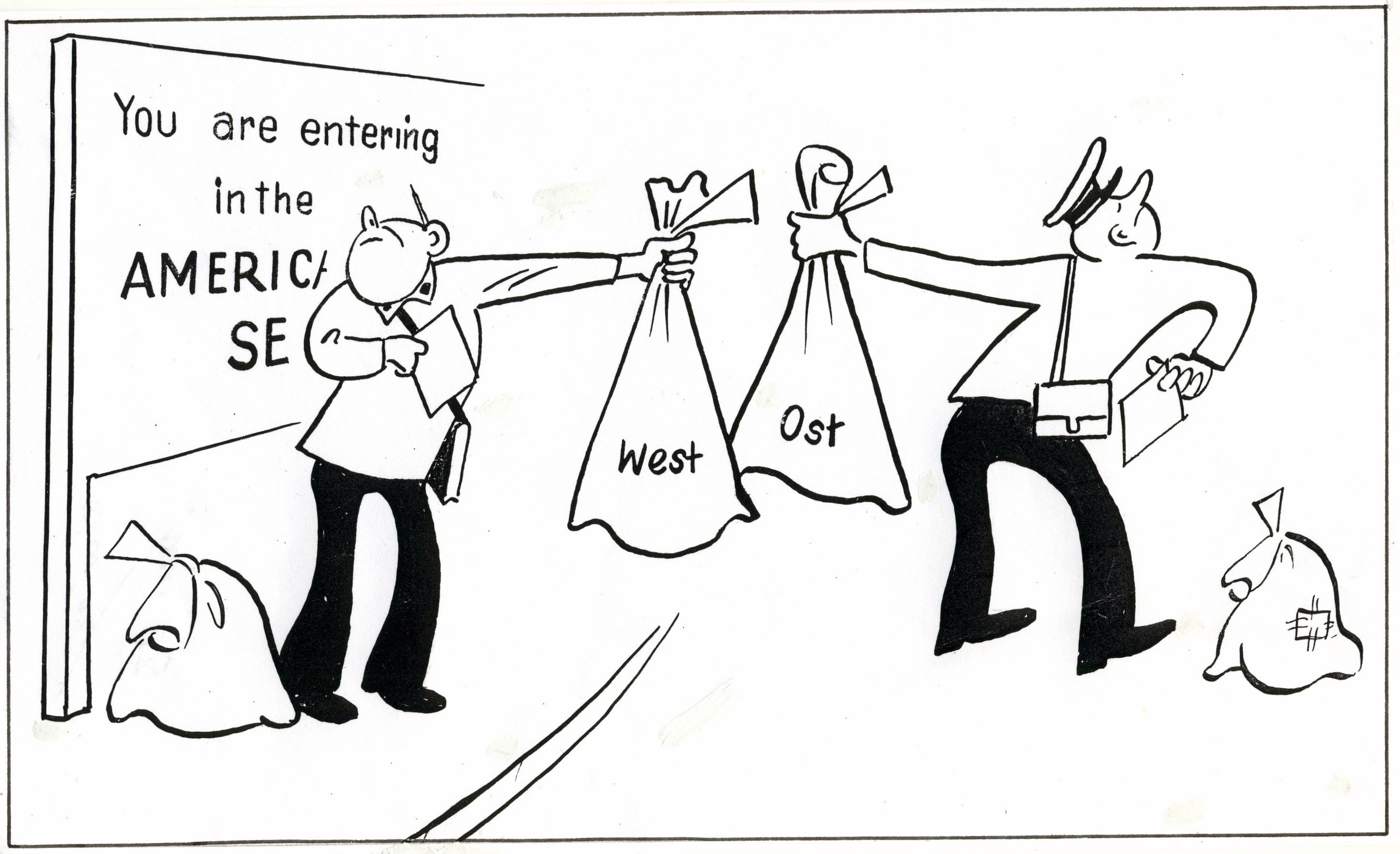 Postexchange at the sector border in 1949; points to increasing tensions also in the field of the postal system during the cold war.